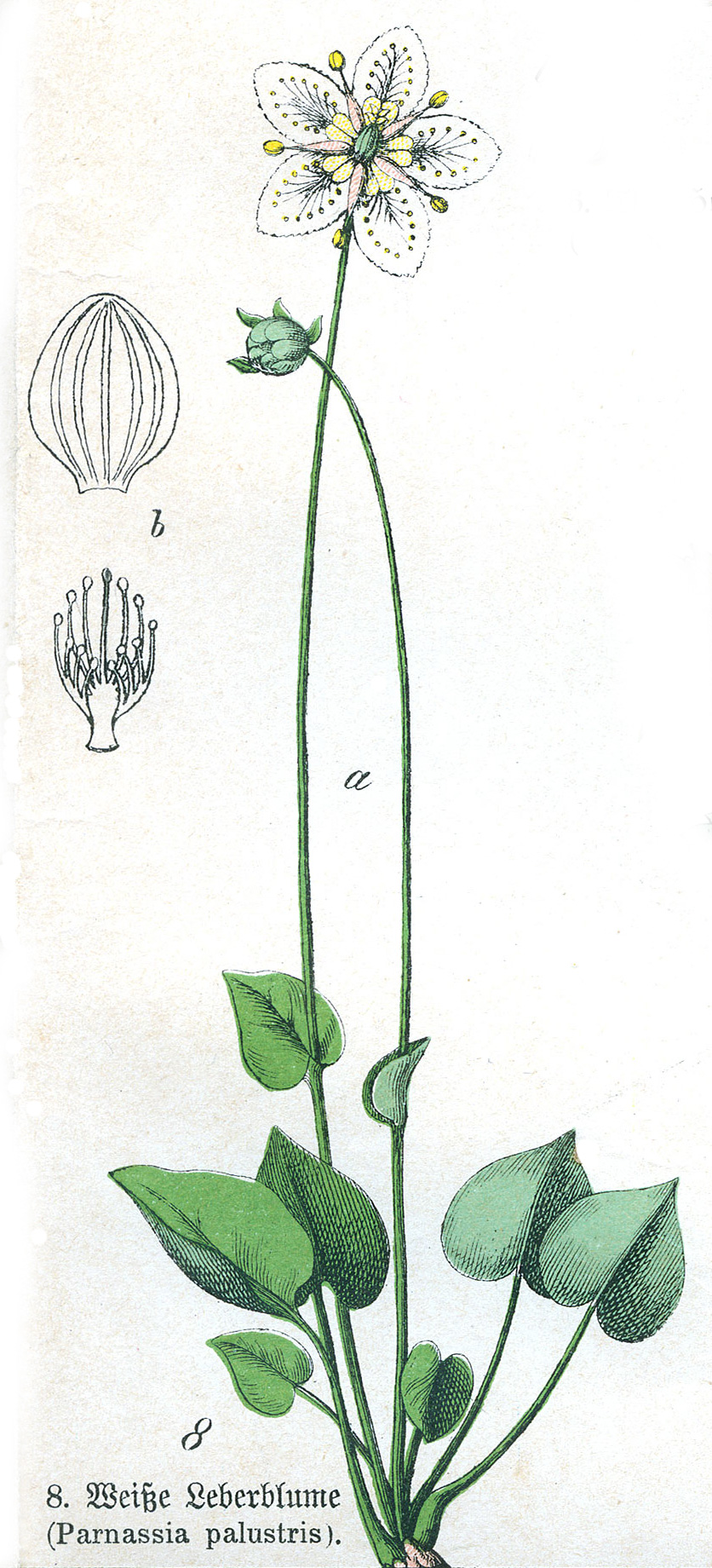 illustration from «Naturgeschichte des Pflanzenreichs», table XVI (fragment)